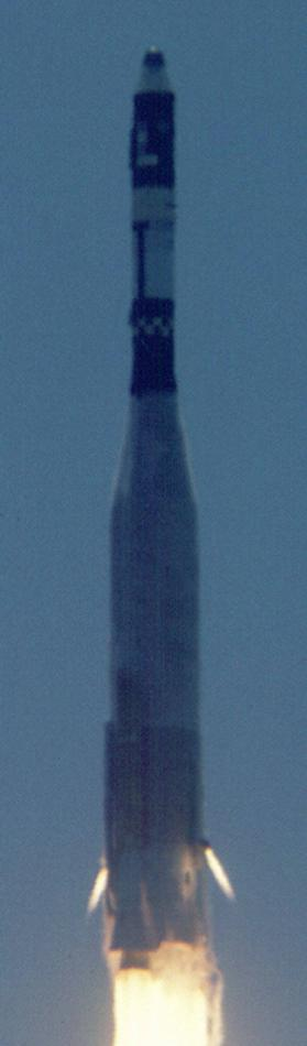 Launch of the Atlas SLV-3 Agena D with KH-7 29 reconnaissance satellite.